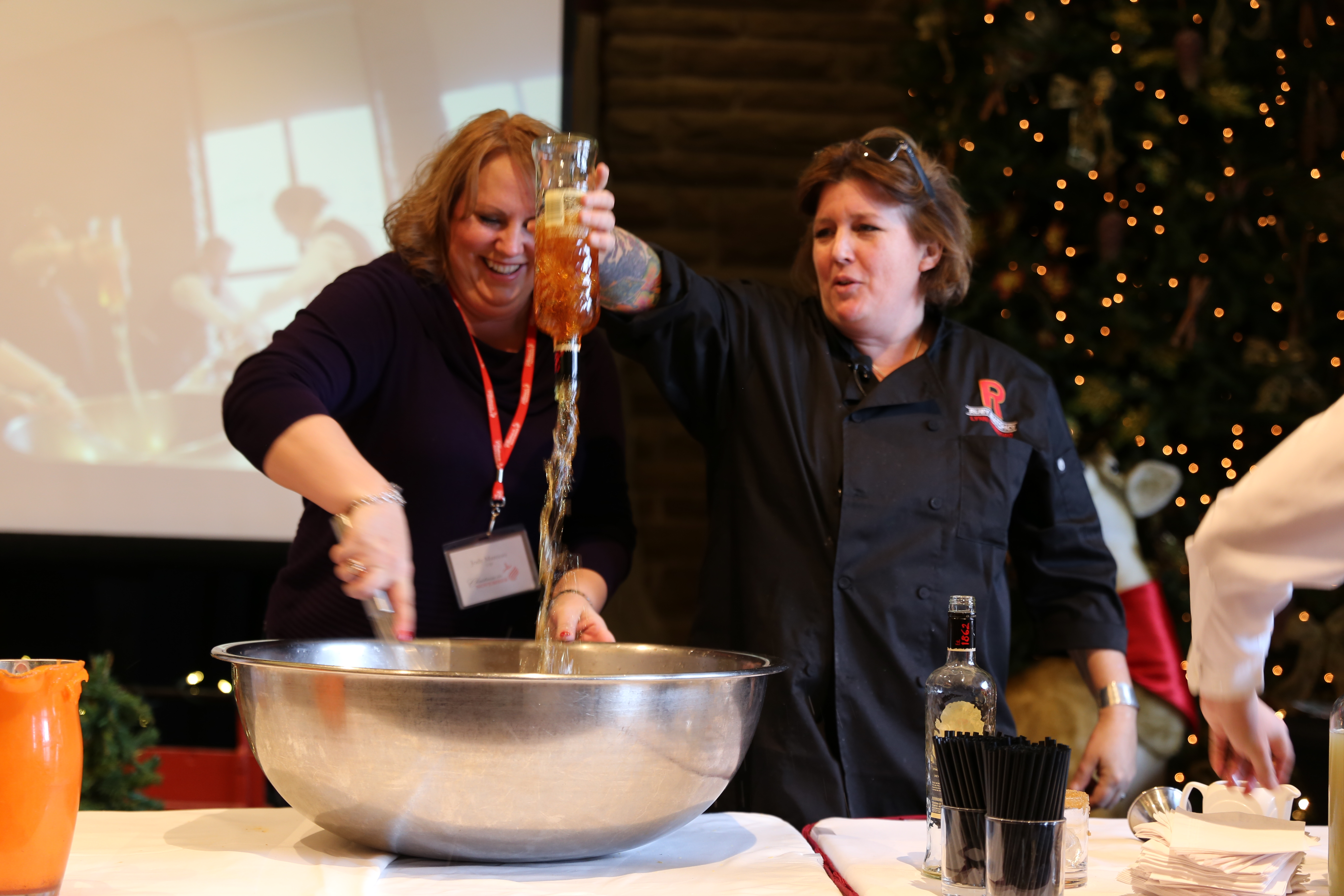 Christmas in November